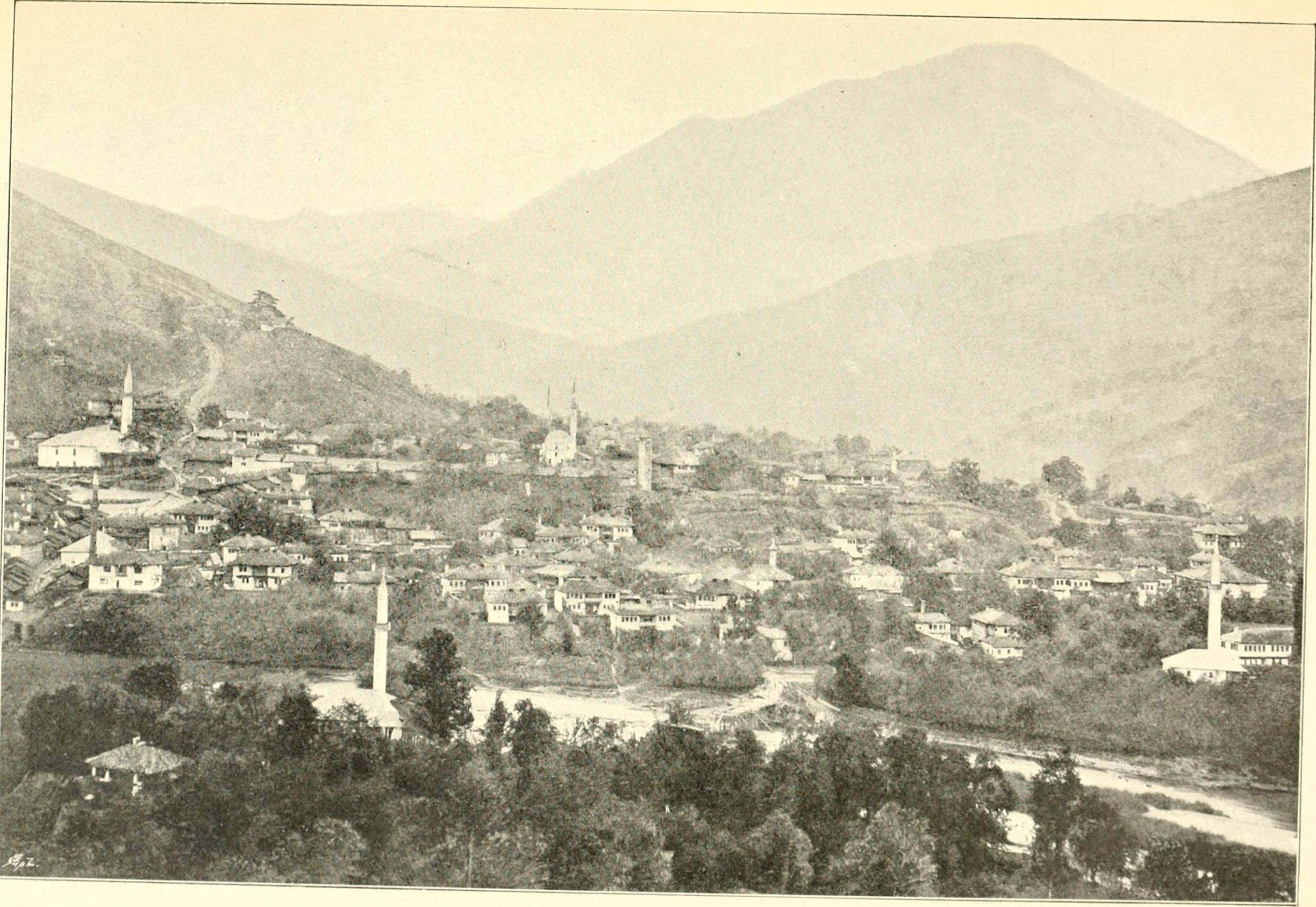 Title: Durch Bosnien und die Herzegovina kreuz und quer; Wanderungen Year: 1897 (1890s) Authors: Renner, Heinrich Subjects: Bosnia and Hercegovina -- Description and travel Publisher: Berlin D. Reimer (E. Vohsen) Text Appearing Before Image: Städterin aus Foca. — 140 Text Appearing After Image: «